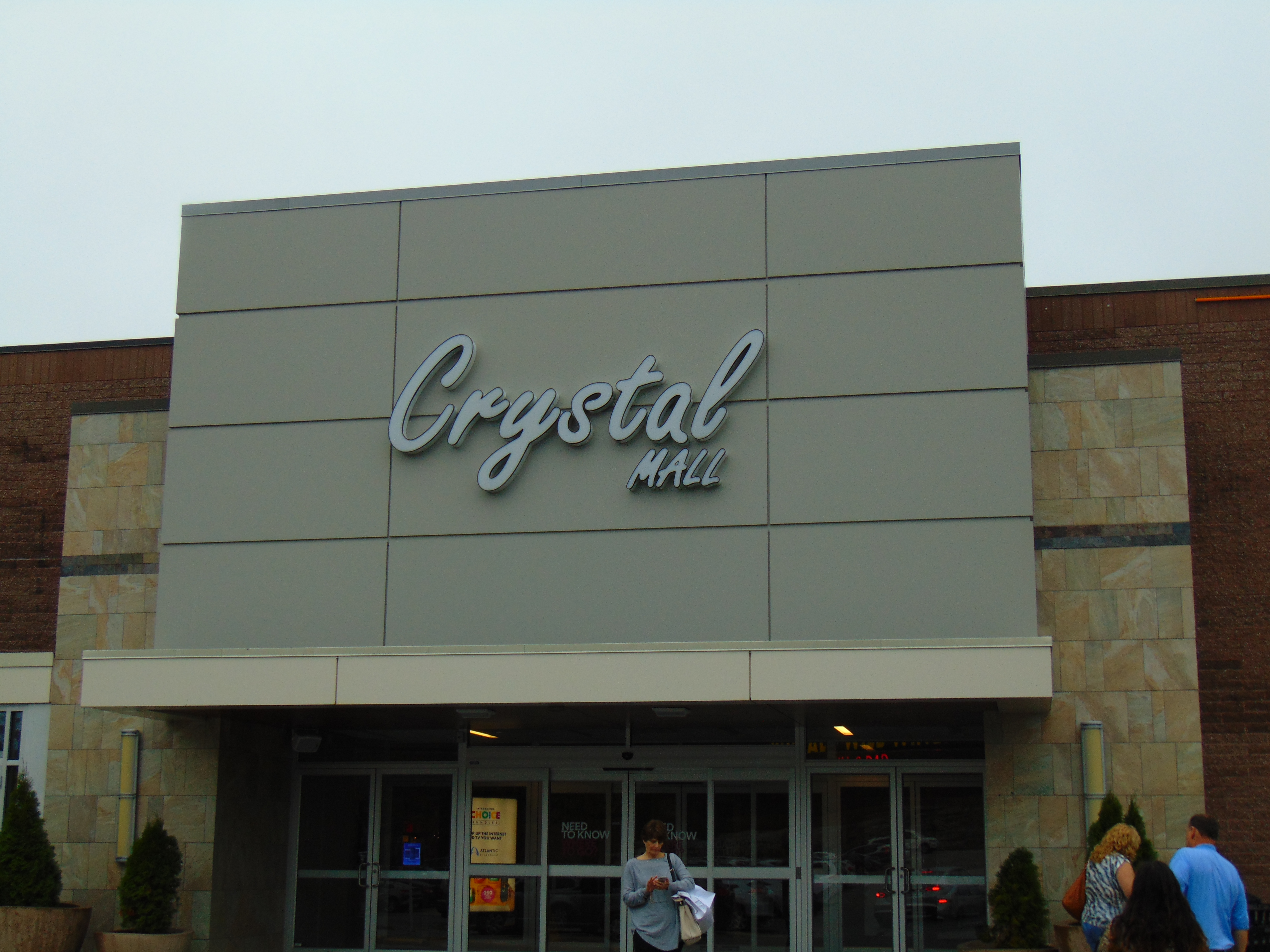 This is the entrance for the Crystal Mall